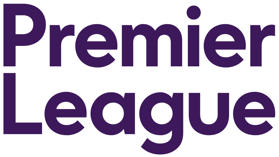 The text-only logo of the Premier League, featuring purple bold text.